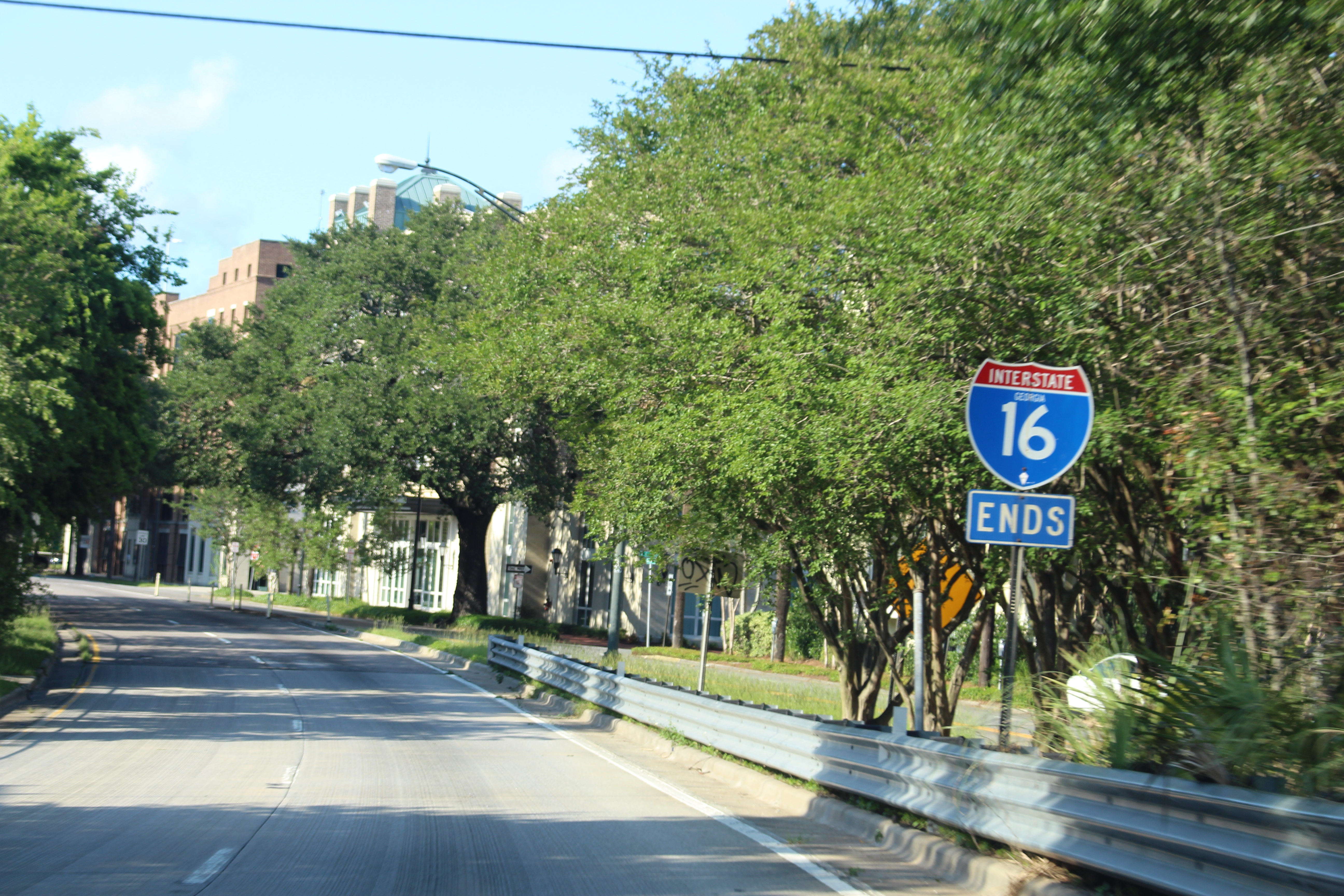 Georgia I16eb End, Savannah, Chatham County, Georgia